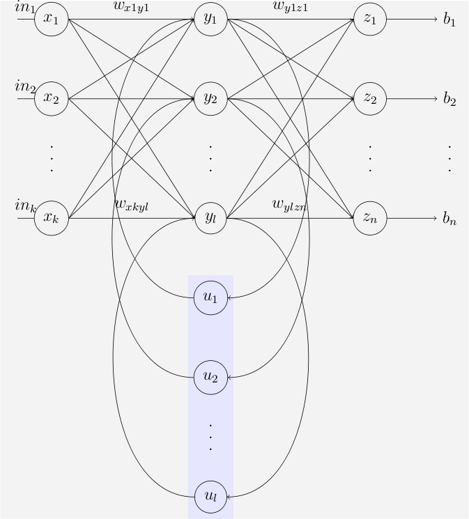 The Elman Simple Recurrent Neural Network. The context layer (u1 ... ul) provides a temporal memory to the network, allowing it to "remember" previous hidden layer states. Generated in LaTeX via PGF/Tikz.